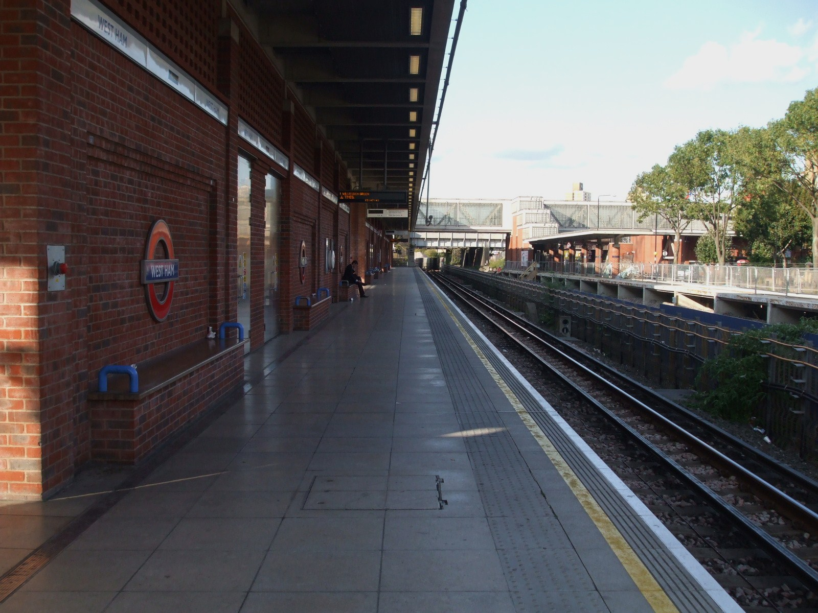 West Ham station Jubilee line westbound platform looking eastbound (actually north here). Construction in progress (as of October 2008) on the upcoming Docklands Light Railway platforms on the right (formerly used by the North London Line prior to late 2006).